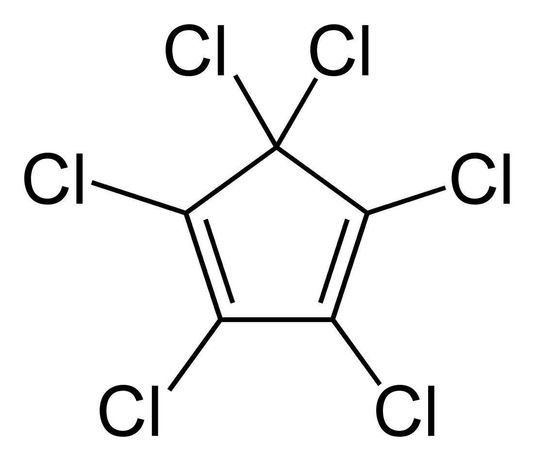 Structural formula of the hexachlorocyclopentadiene molecule, C5Cl6. Structure drawn in ChemDraw Ultra 11.0.